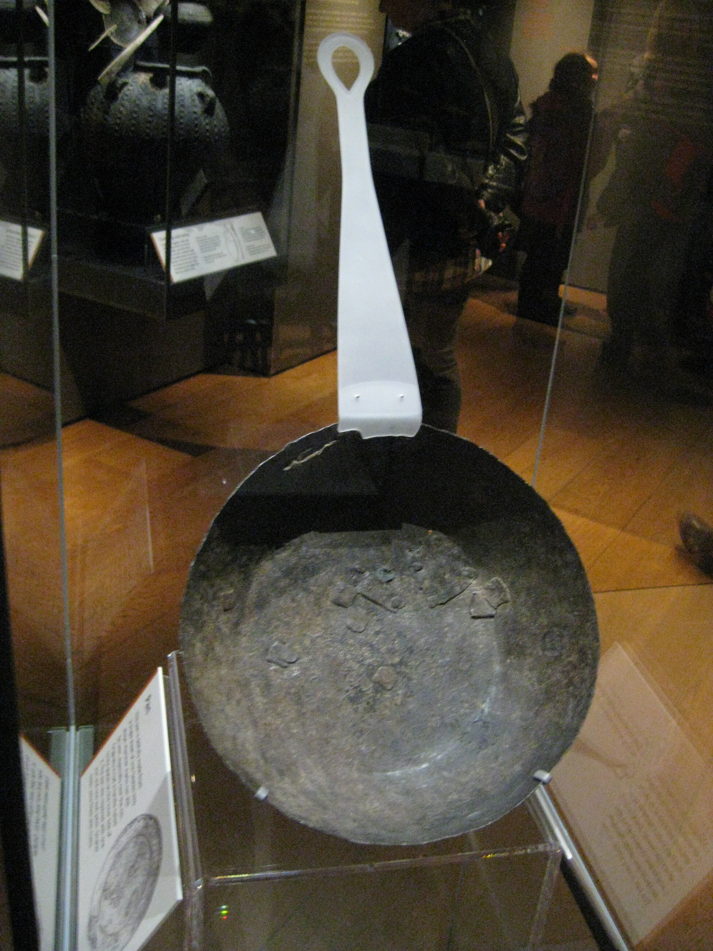 Iron cooking pan at the Jorvik Viking Centre. The handle is not original but similar to one on a complete pan found elsewhere.